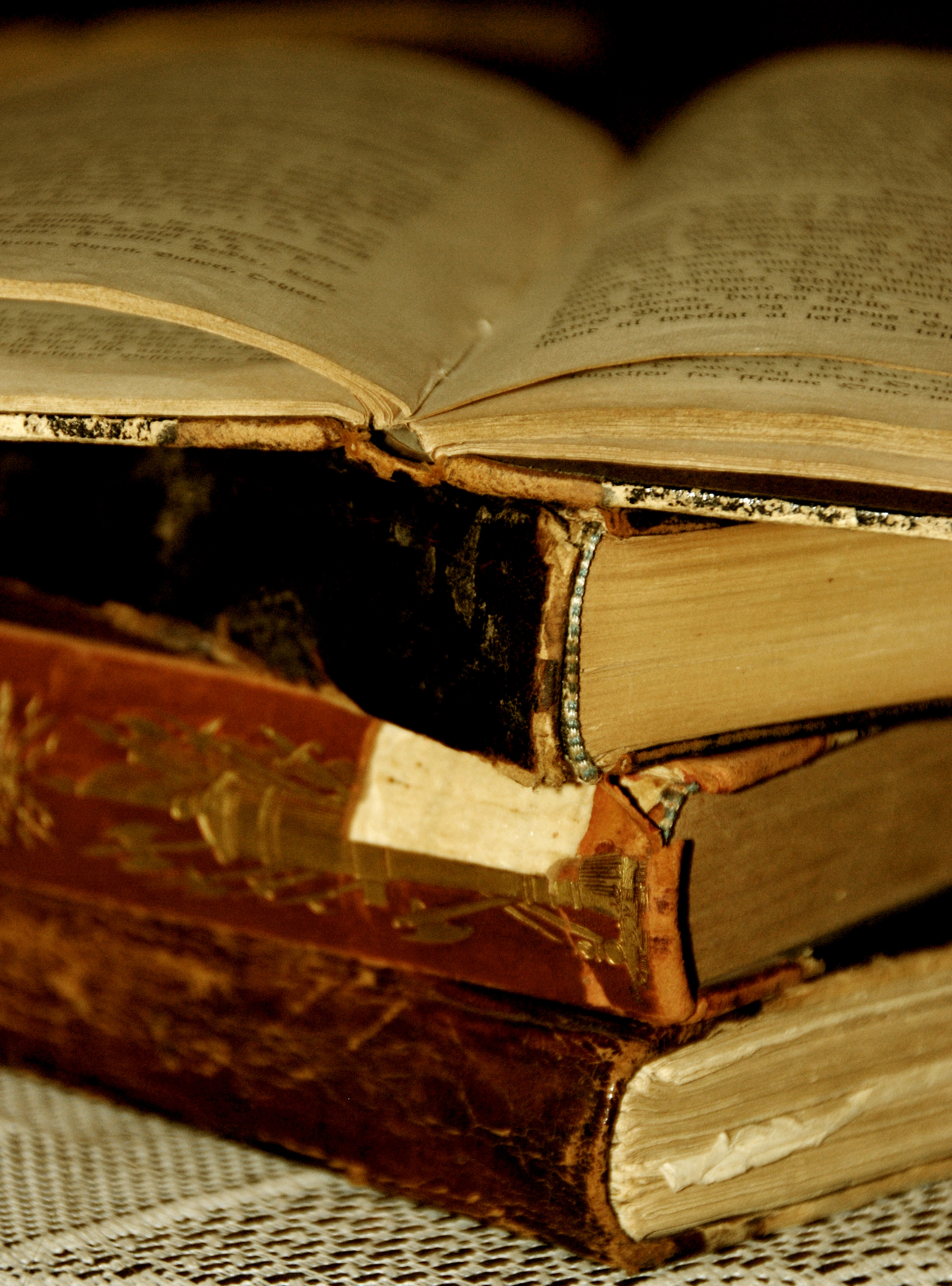 Pile of old books some old books i found in the guest room. =]